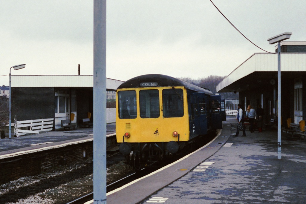 A Class 104 DMU (53512+53431) at Burnley Central railway station.